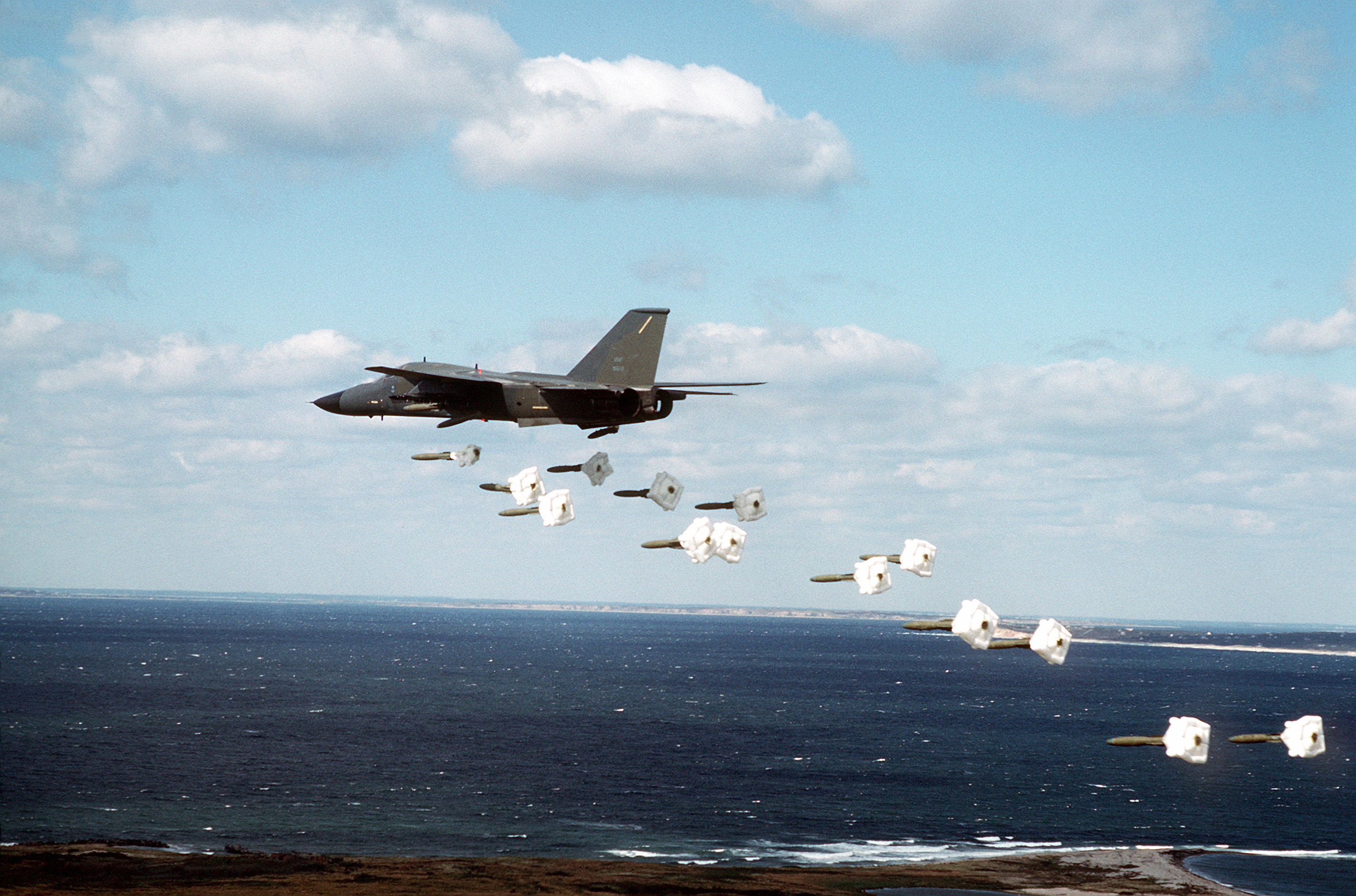 A 509th Bombardment Wing FB-111A aircraft drops Mark 82 high drag practice bombs along a coastline during a training exercise over Nomans Land range.